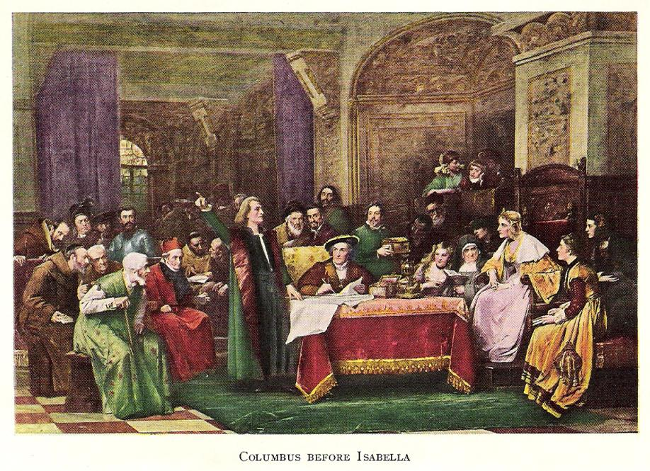 Columbus and Isabella